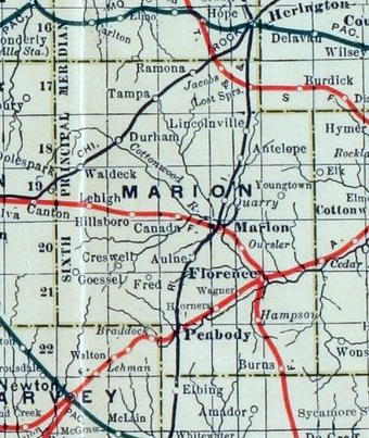 Stouffer's Railroad Map of Kansas, 1915-1918, Marion County.